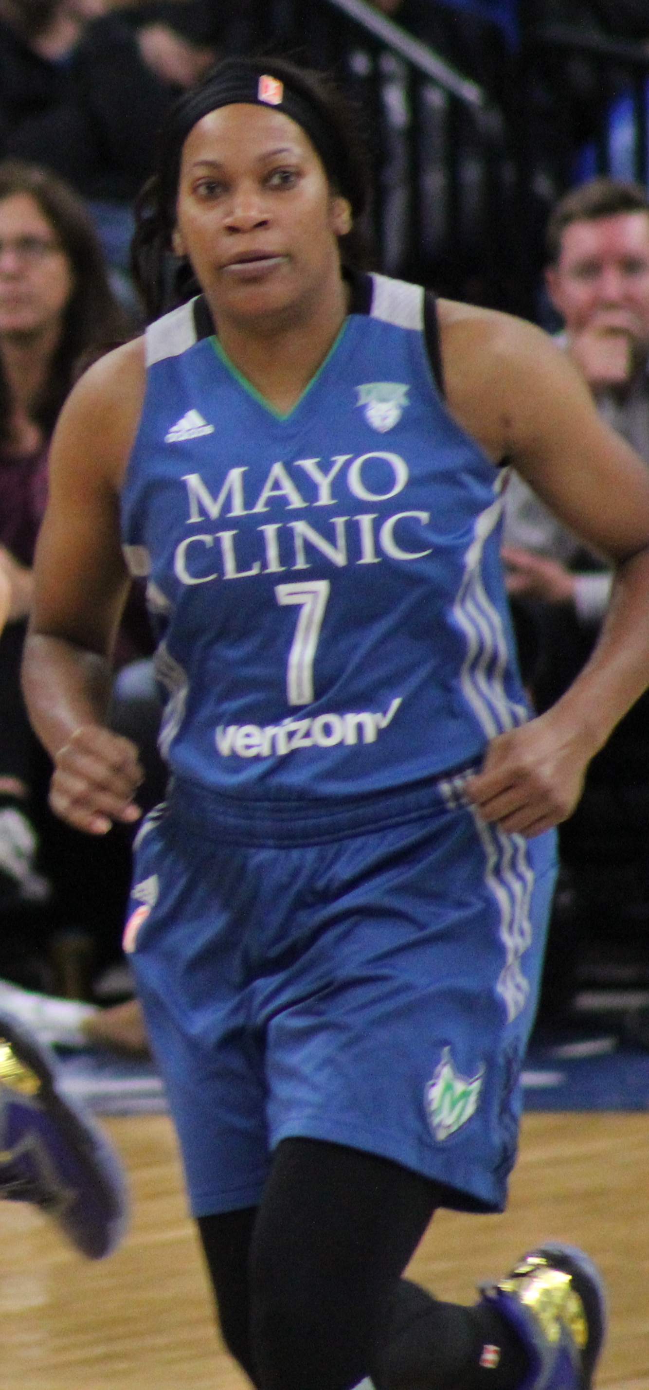 Jia Perkins of the Minnesota Lynx